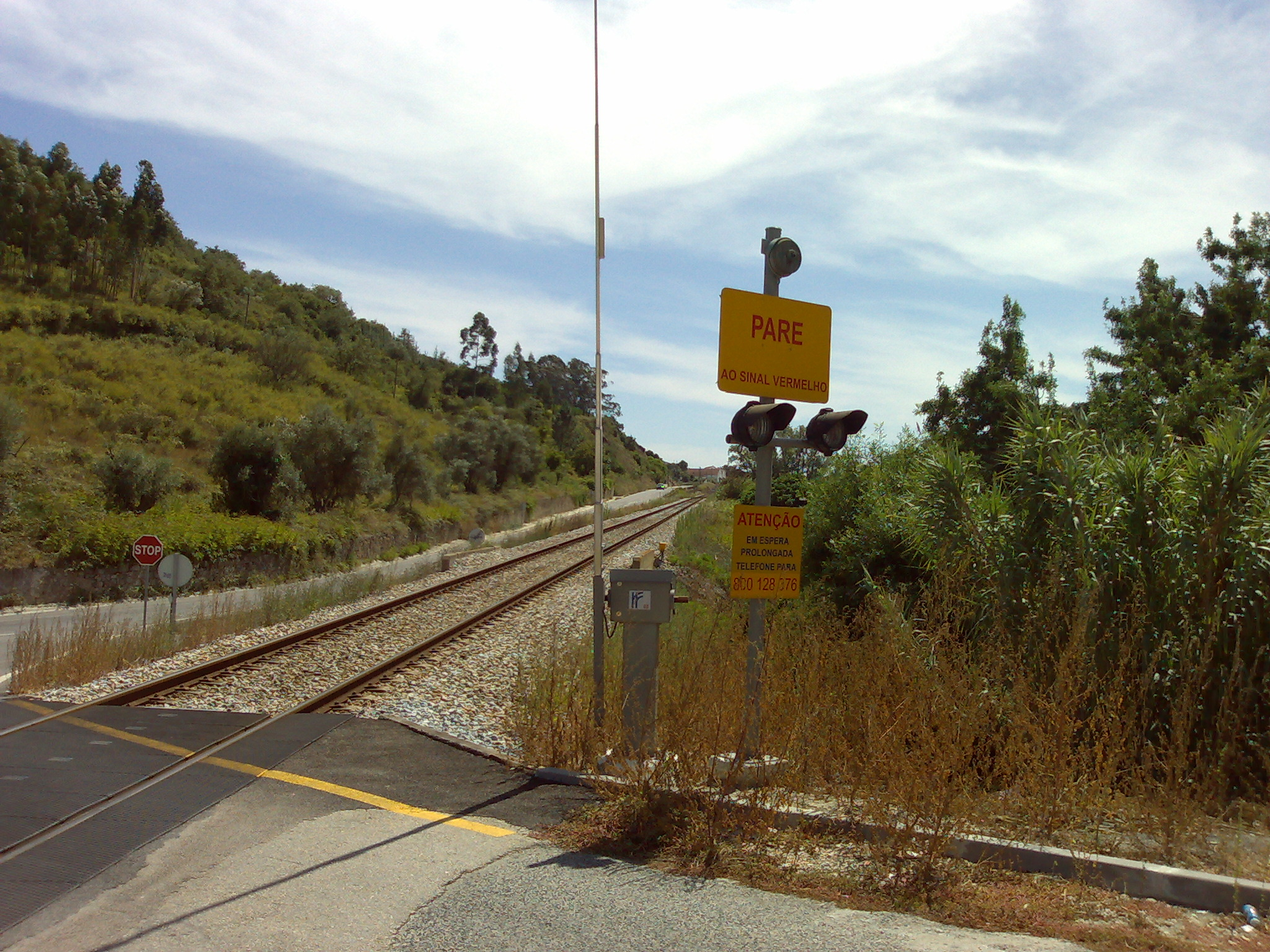 Railway crossing by the Zibreira-Gozundeira train station, Portugal.